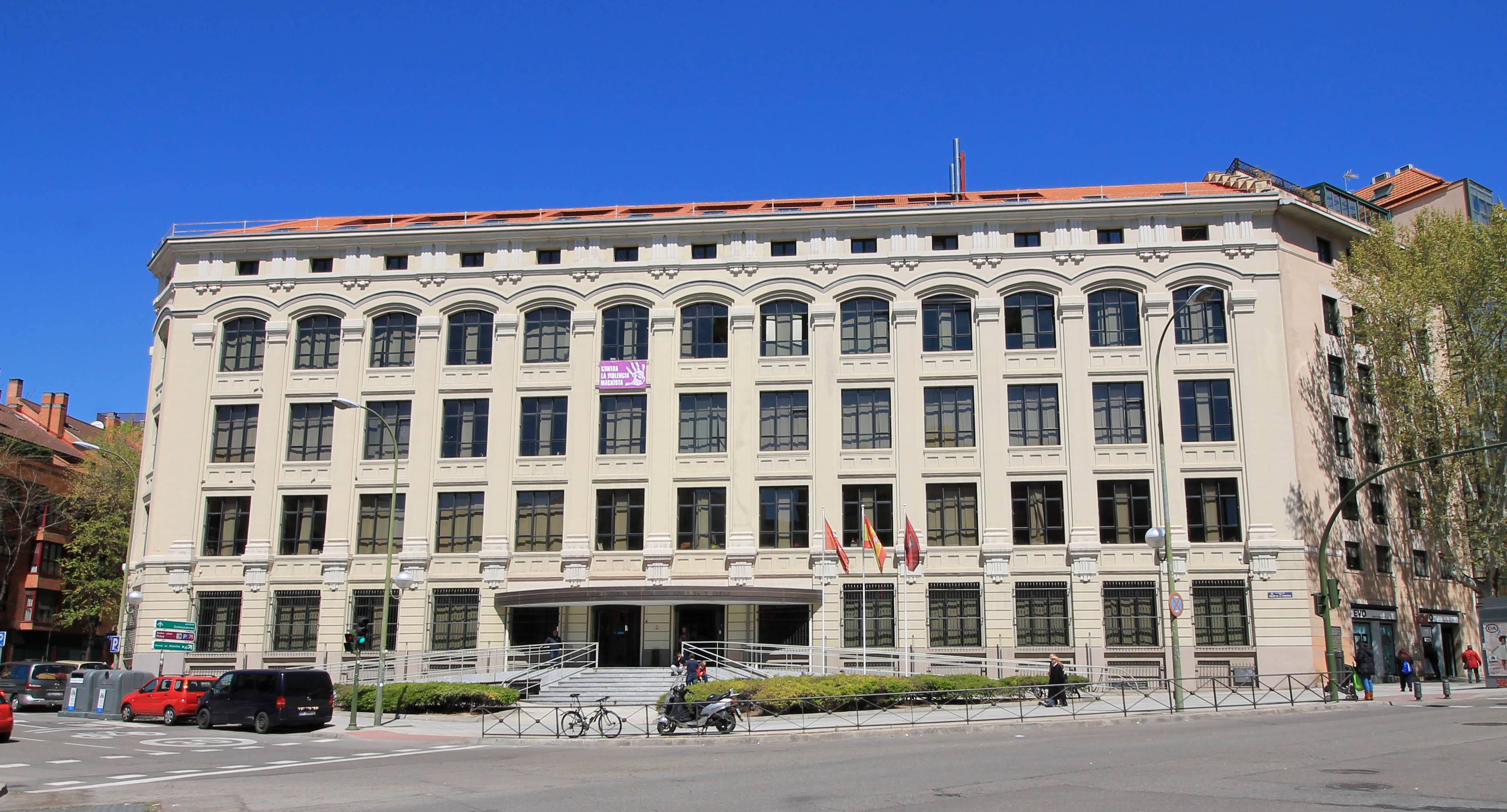 View of the former Osram factory in Madrid (Spain).